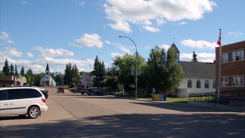 Street scene in St. Walburg, Saskatchewan.